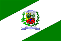 Flags of the city of Erebango, Rio Grande do Sul, Brazil.